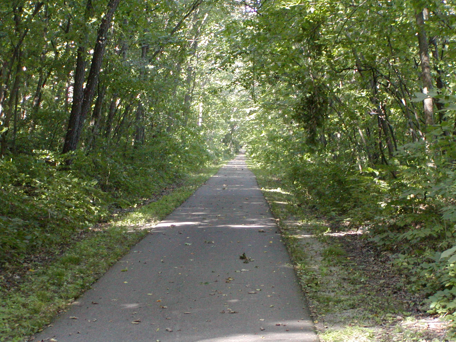 Sakatah Singing Hills State Trail, picture taken in Sakatah Lake State Park, Minnesota